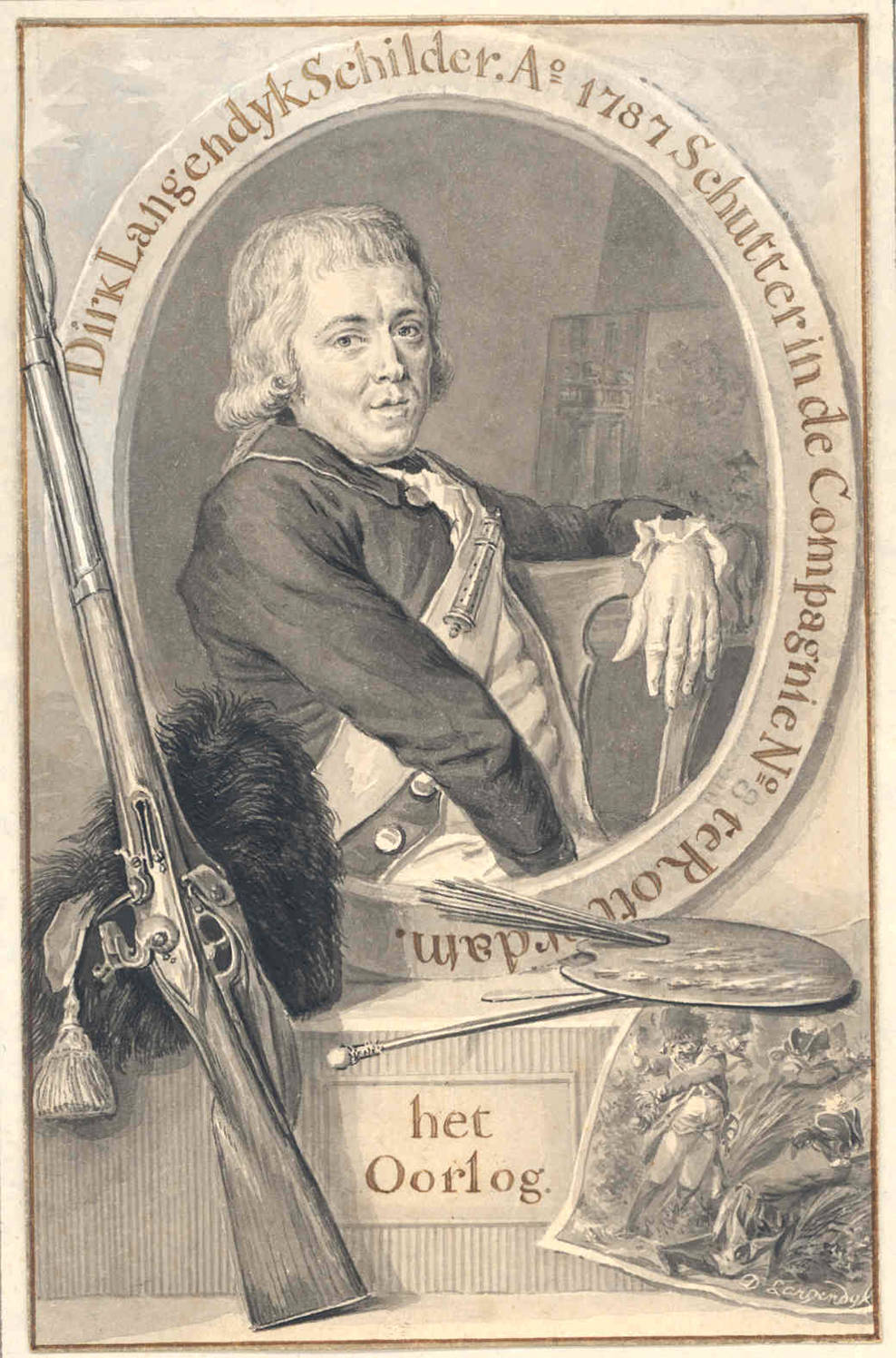 Self portrait of Dirk Langendijk, Special Collections, Leiden University Library